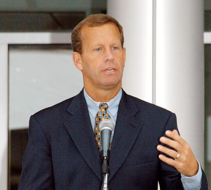 A picture of Frank T. Brogan speaking at the Kennedy Space Center